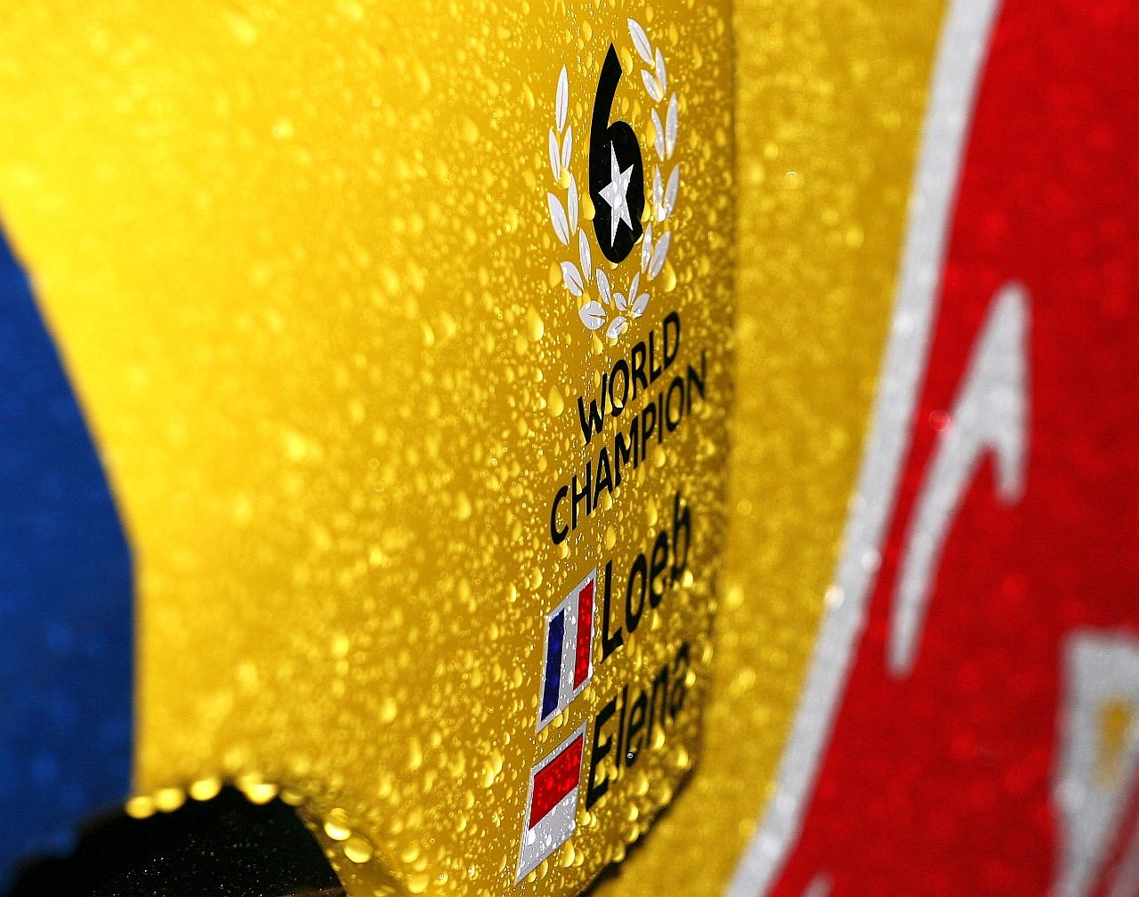 Loeb and Elena's Citroen C4 WRC at WRC Wales Rally GB Cardiff Bay Service / Park Ferme November 2010